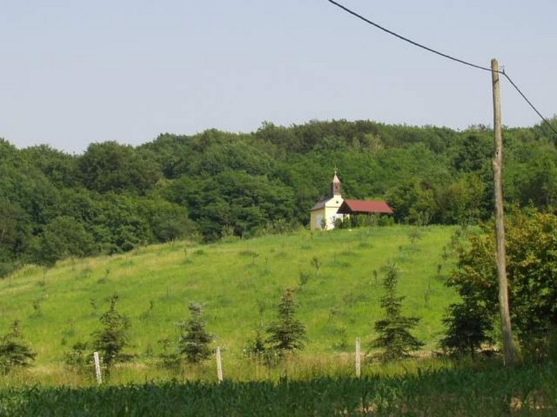 Stara Marča - Chapel on the hill